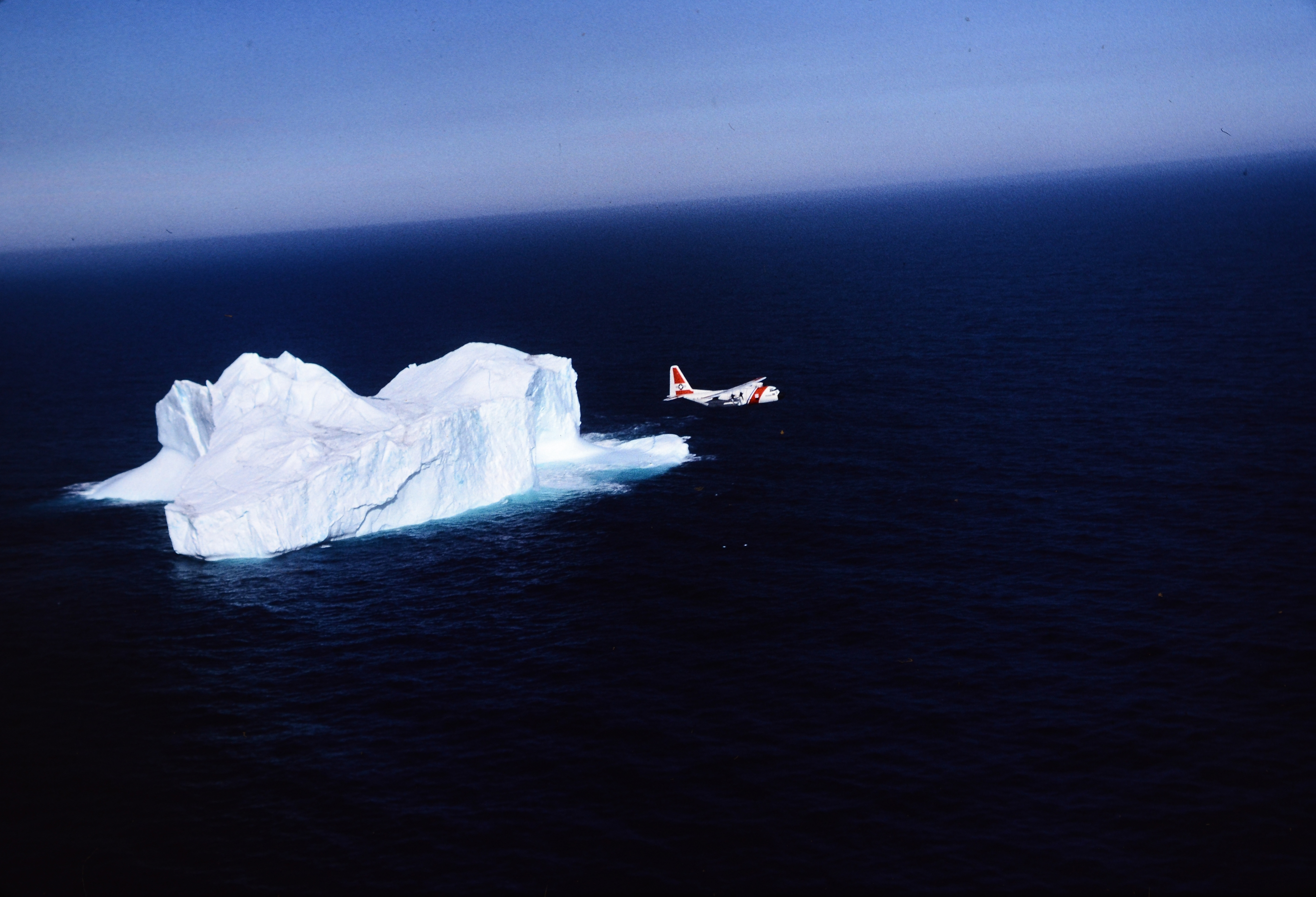 NEW YORK - A Coast Guard C-130, based out of Air Station Elizabeth City, N.C., and carrying members of the International Ice Patrol, stationed in New London, Conn., flies past an iceberg in the waters near Newfoundland, Canada, June 10, 1997. The mission of the International Ice Patrol is to monitor iceberg locations near the Grand Banks of Newfoundland and provide updates to the maritime community. The tragic sinking of the passenger liner RMS Titanic in 1912 prompted the maritime nations with ships transiting the North Atlantic to establish an ice patrol in the area. U.S. Coast Guard photo by Petty Officer 1st Class Brandon Brewer.